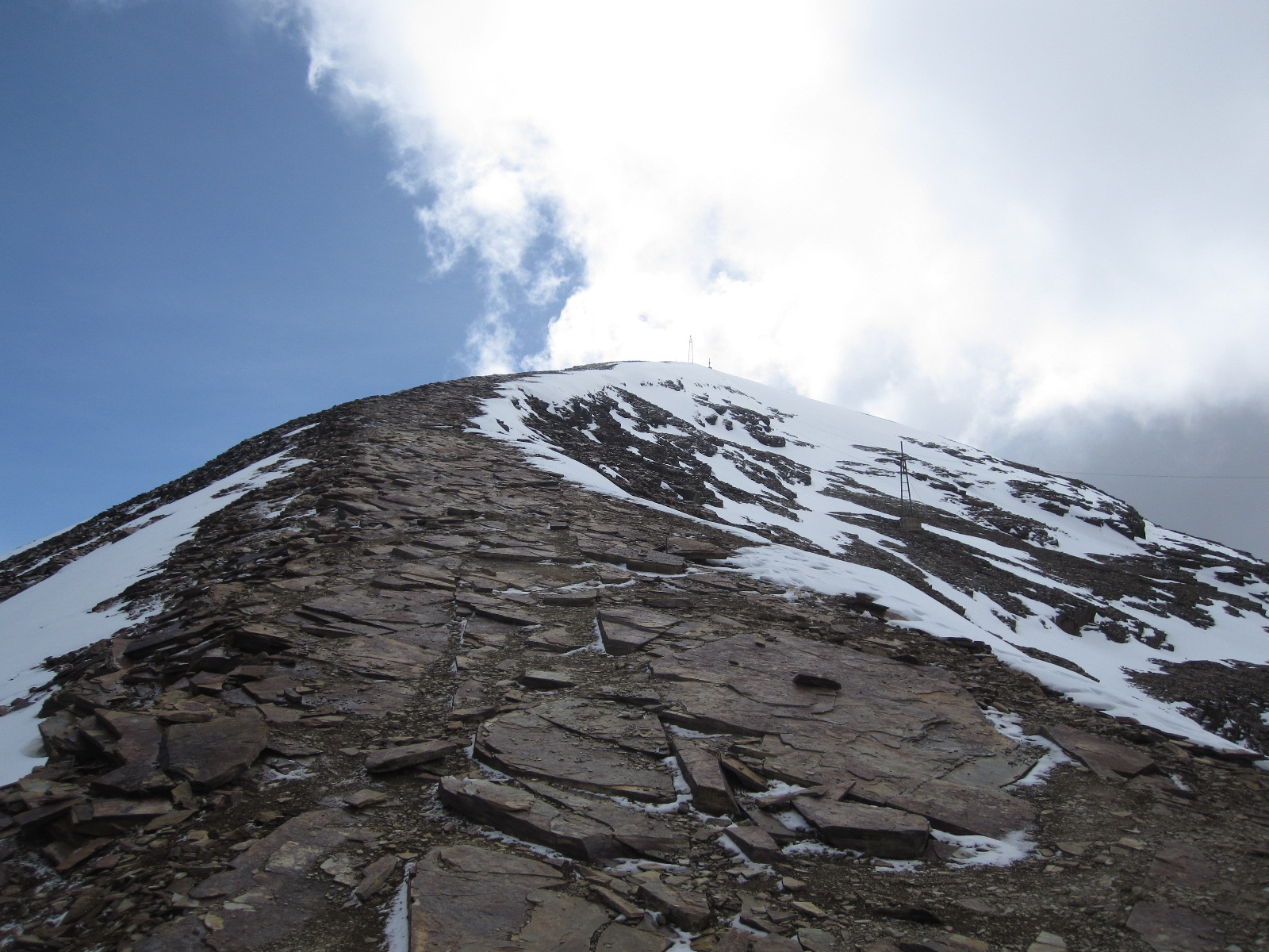 view of Chacaltaya peak, Bolivia, 25 March 2011